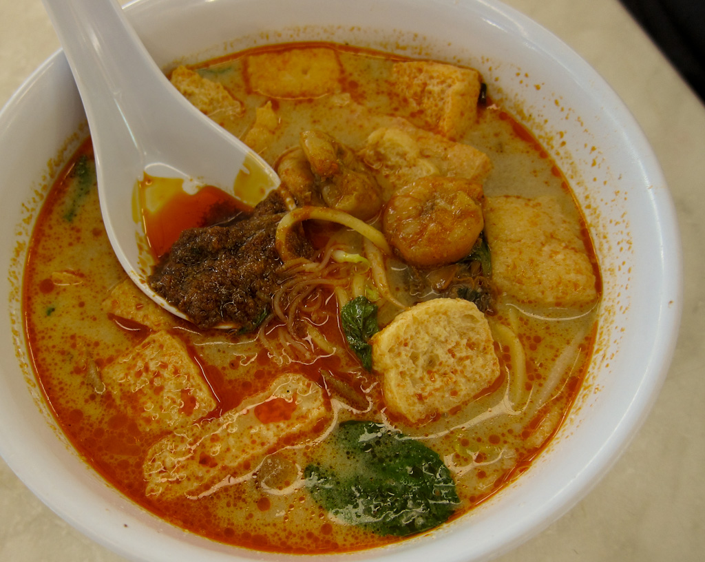 Curry Mee in Malaysia